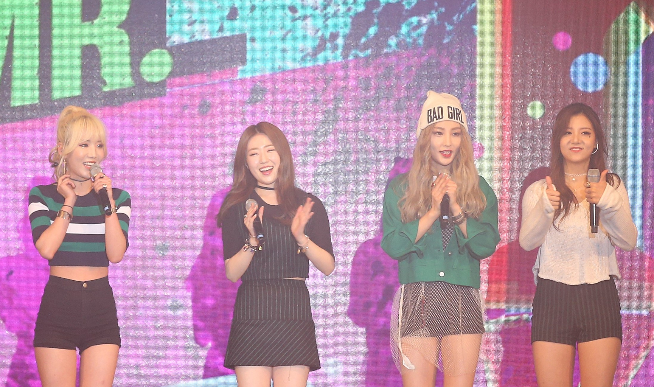 Hello, Mr K! ConcertApril 21, 2016US Army Garrison-YongsanMinistry of Culture, Sports and TourismKorean Culture and Information ( Photographer : Jeon HanThis official Republic of Korea photograph is being made available only for publication by news organizations and/or for personal printing by the subject(s) of the photograph. The photograph may not be manipulated in any way. Also, it may not be used in any type of commercial, advertisement, product or promotion that in any way suggests approval or endorsement from the government of the Republic of Korea.-------------------------------------------------헬로, 미스터 K! 콘서트2016-04-21주한 미육군 용산기지문화체육관광부해외문화홍보원코리아넷전한